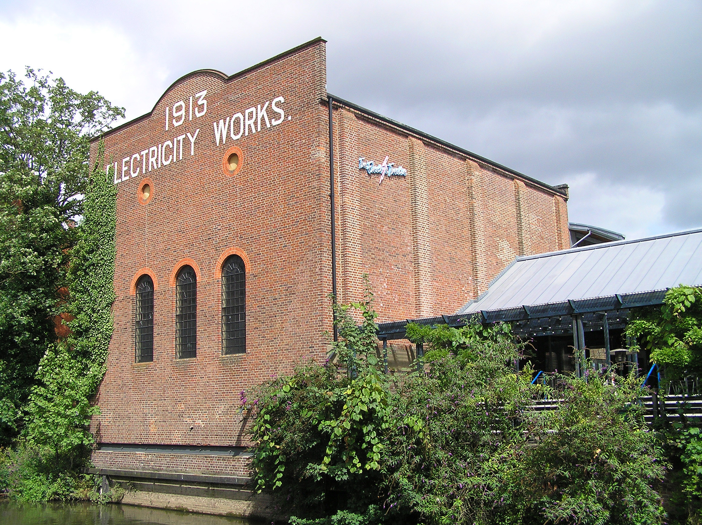 Electric Theatre, Guildford - former electricity works, seen from across the River Wey